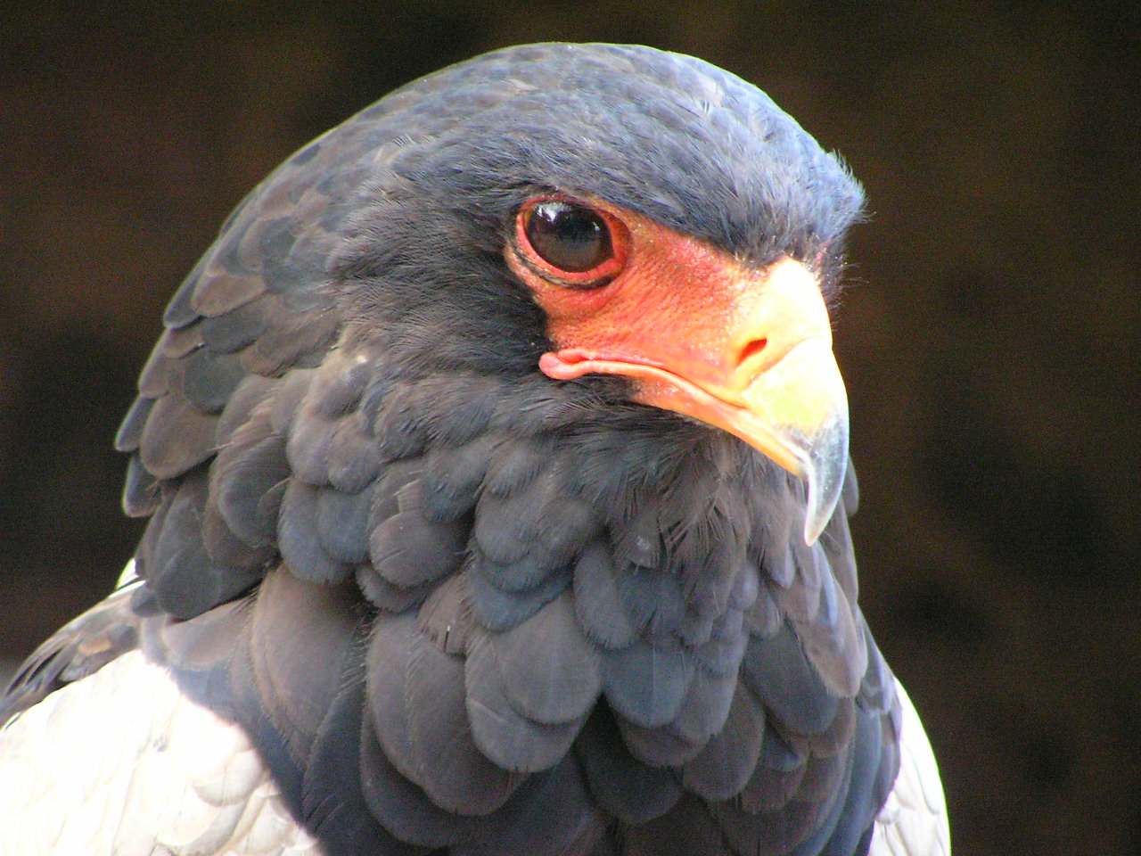 Close-up of Terathopius ecaudatus at a zoo.